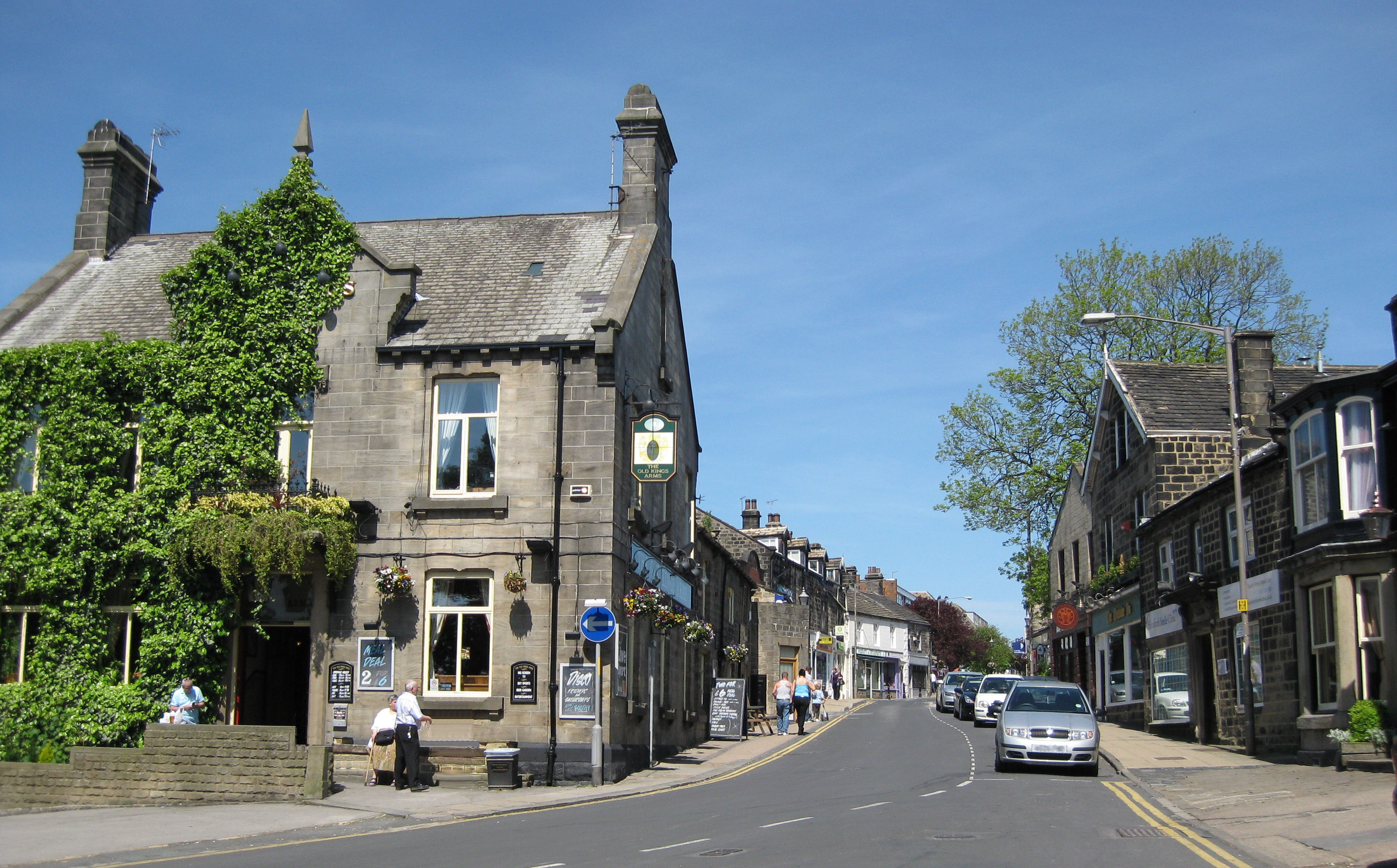 Town Street, Horsforth, Leeds LS18, with the Old Kings Arms on the left. Taken from The Green